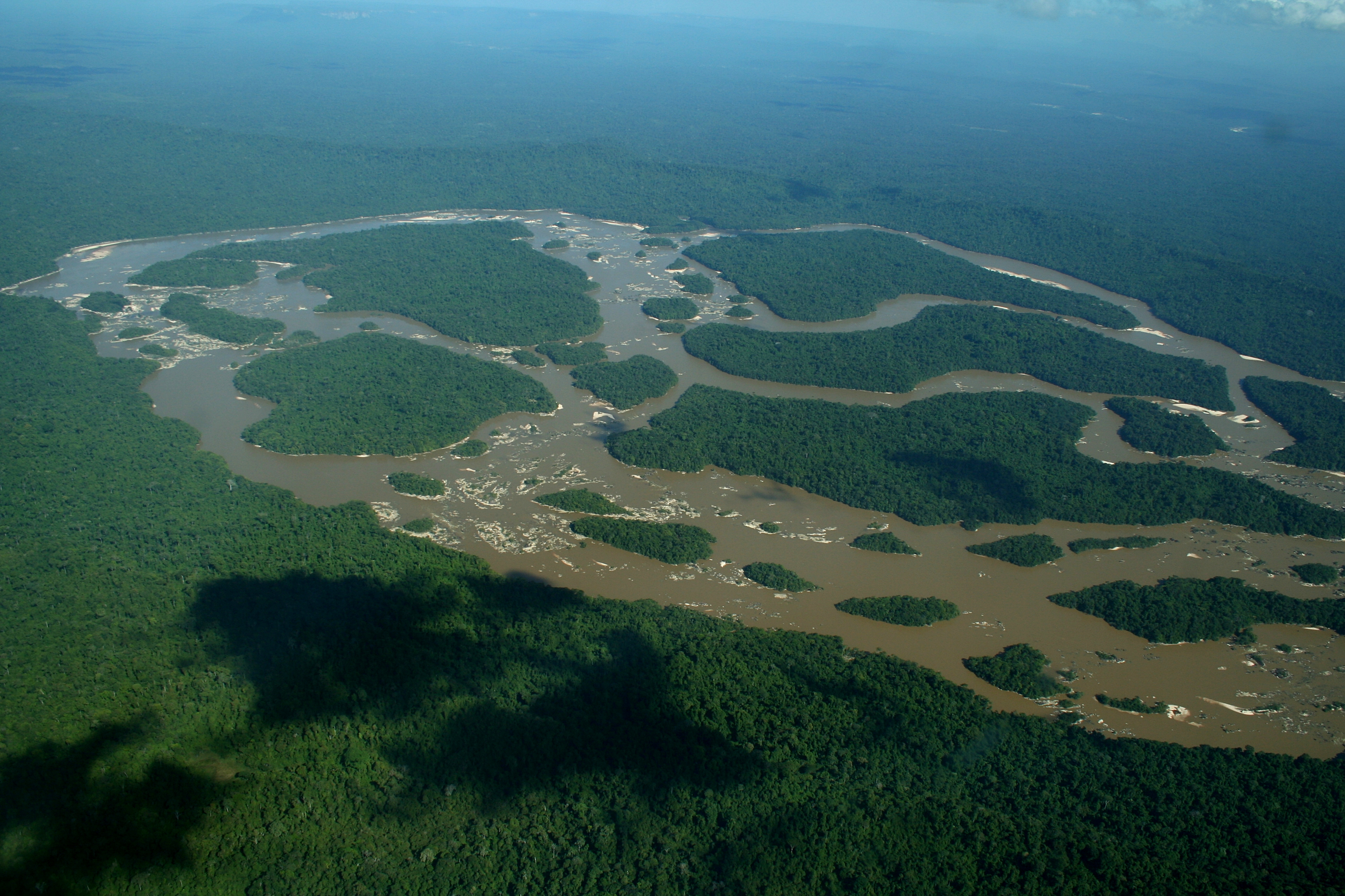 Aerial view of the Caroní River uphill from the Guri dam lake. This picture was taken during the dry season, when the flowthrough of the river is smaller. As a result, large paches of the riverbed are dry. Bolivar state, Venezuela.